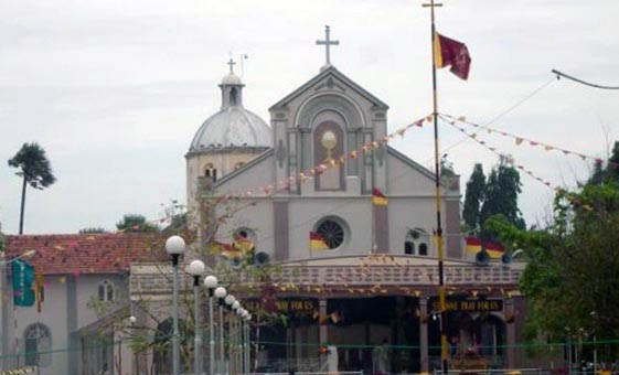 Author: Francis Dabarera, WEBMASTER